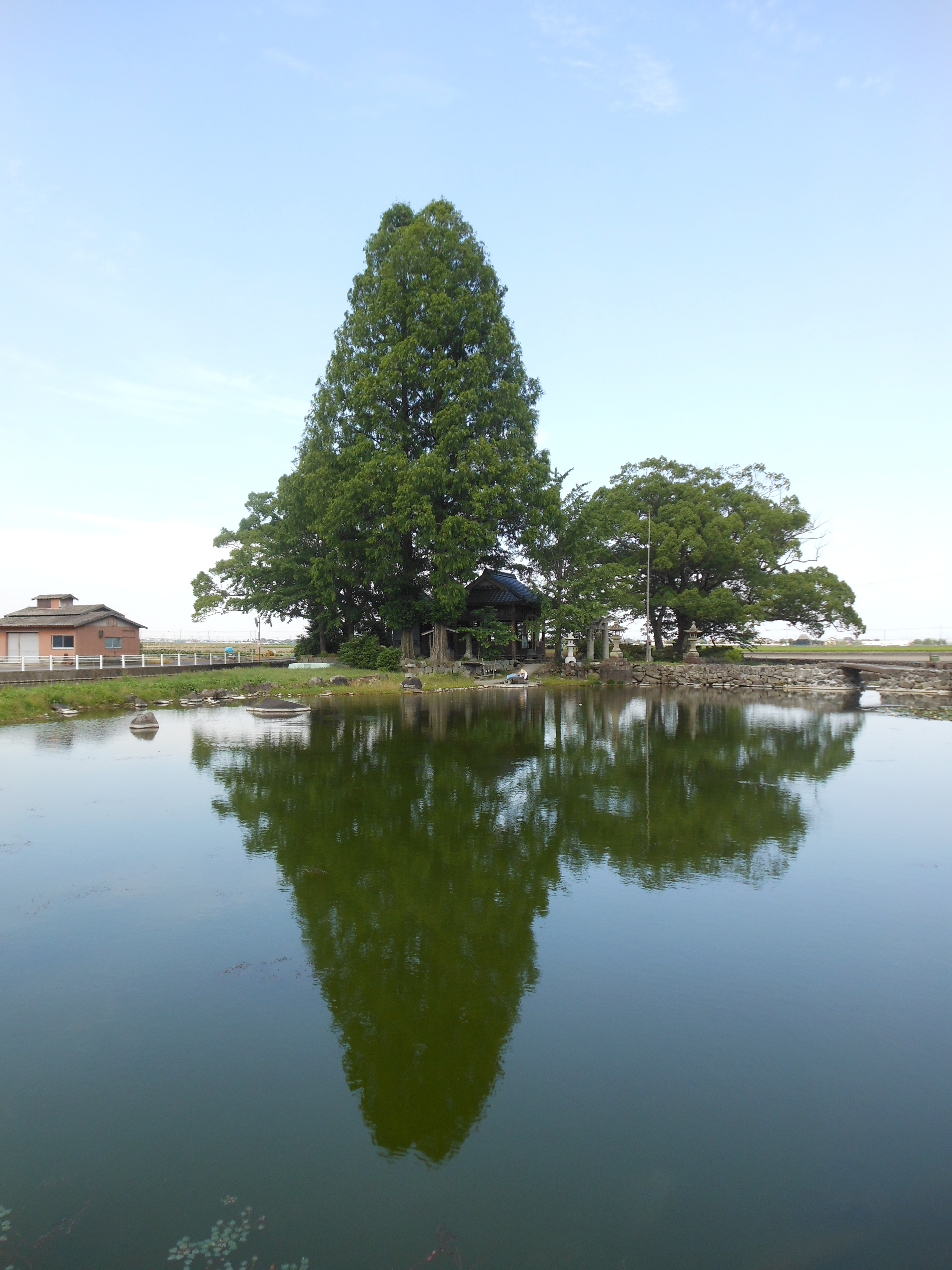 Nuinoike Pond and Itsukushima Shrine, trees in Shiroishi town, Saga prefecture.